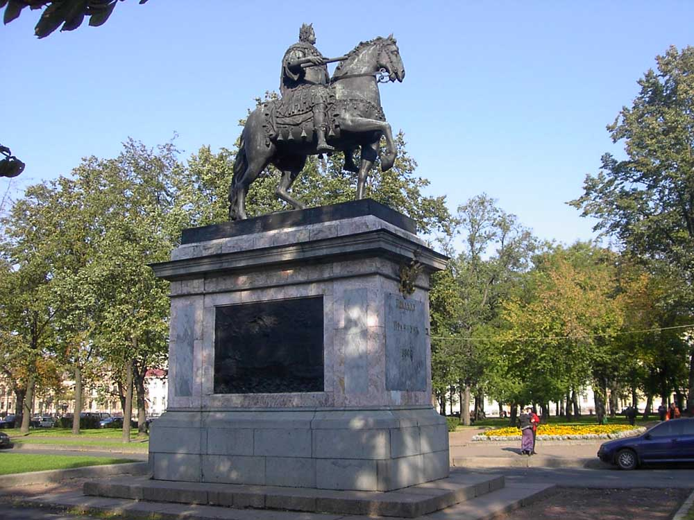 Monument to Peter I at St. Michael's Castle in St. Petersburg. Karlo Bartolomeo Rastrelli, 1720.